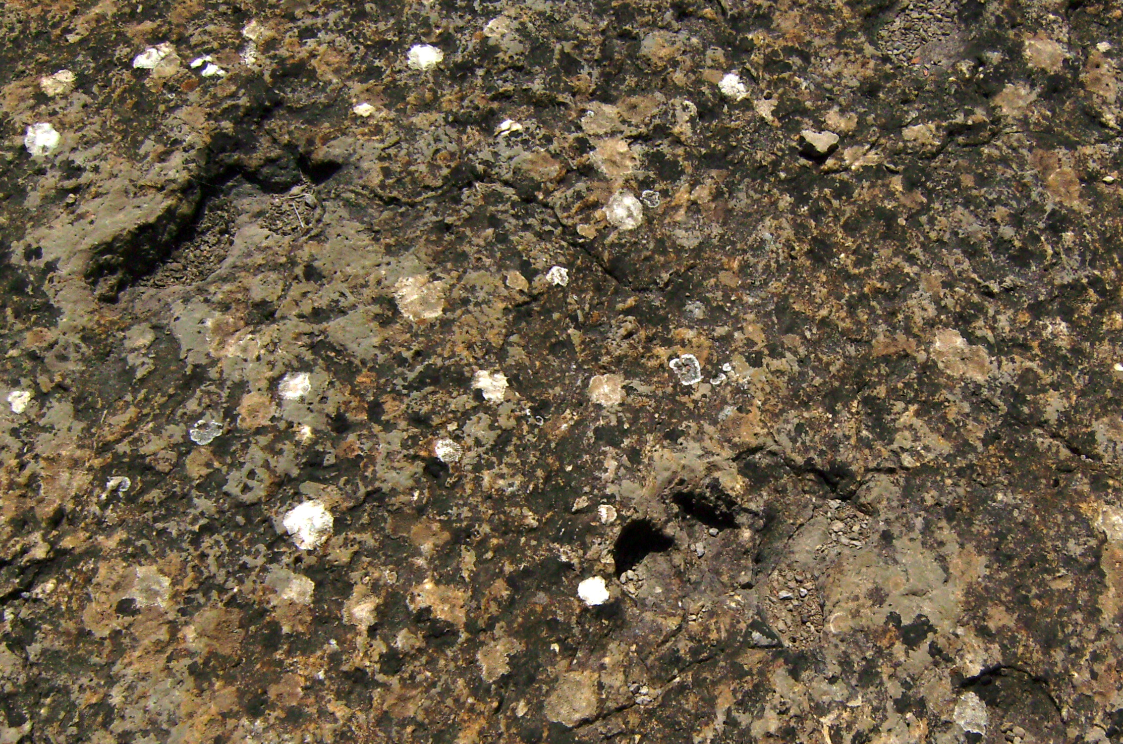 Icnite from an Entelodont,Castelltallat, Catalonia